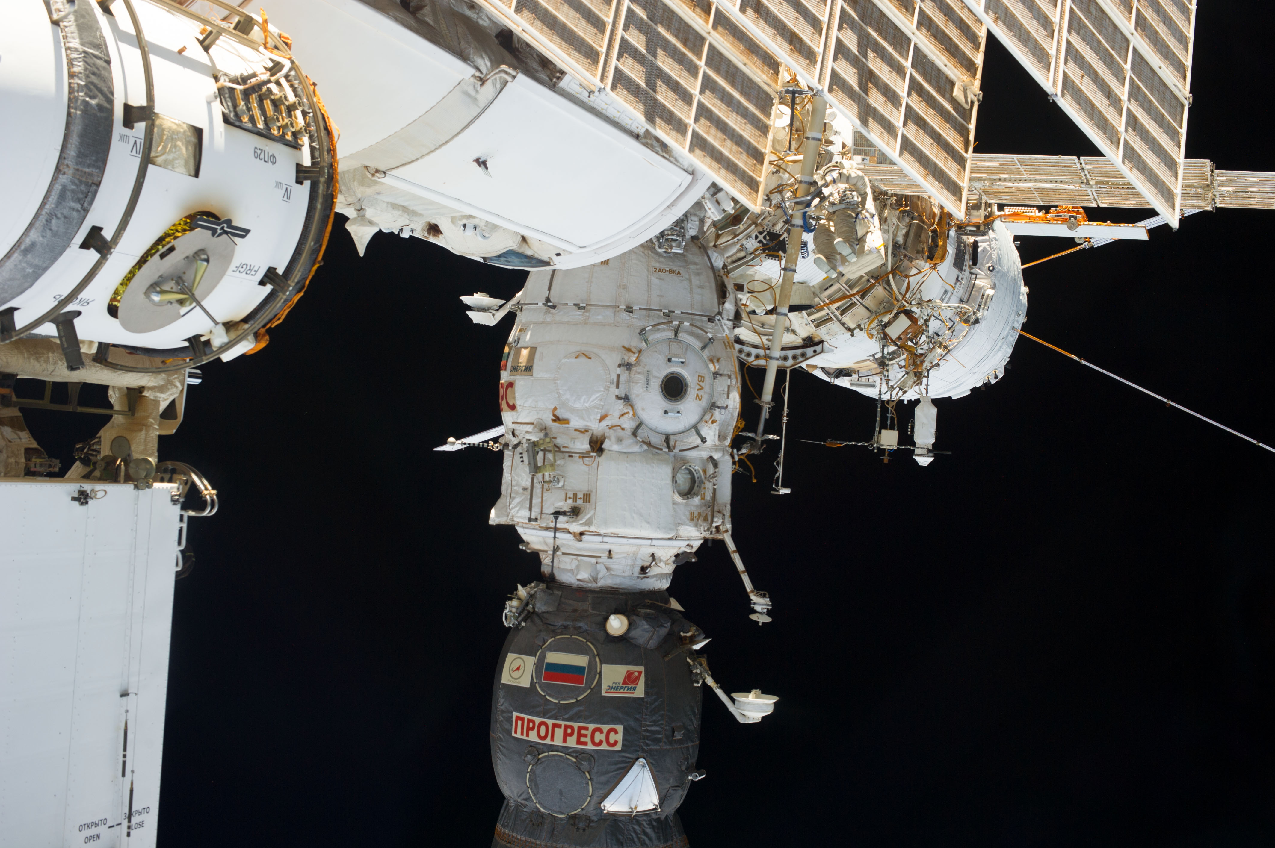 Russian cosmonaut Alexander Misurkin (bottom center), Expedition 36 flight engineer, participates in a session of extravehicular activity (EVA) as work continues on the International Space Station. During the six-hour, 34-minute spacewalk, Misurkin and Russian cosmonaut Fyodor Yurchikhin (out of frame), Expedition 36 flight engineer, replaced an aging fluid flow control panel on the station's Zarya module as preventative maintenance on the cooling system for the Russian segment of the station. They also installed clamps for future power cables as an early step toward swapping the Pirs airlock with a new multipurpose laboratory module. The Russian Federal Space Agency plans to launch a combination research facility, airlock and docking port late this year on a Proton rocket. Yurchikhin and Misurkin also retrieved two science experiments and installed a new one.